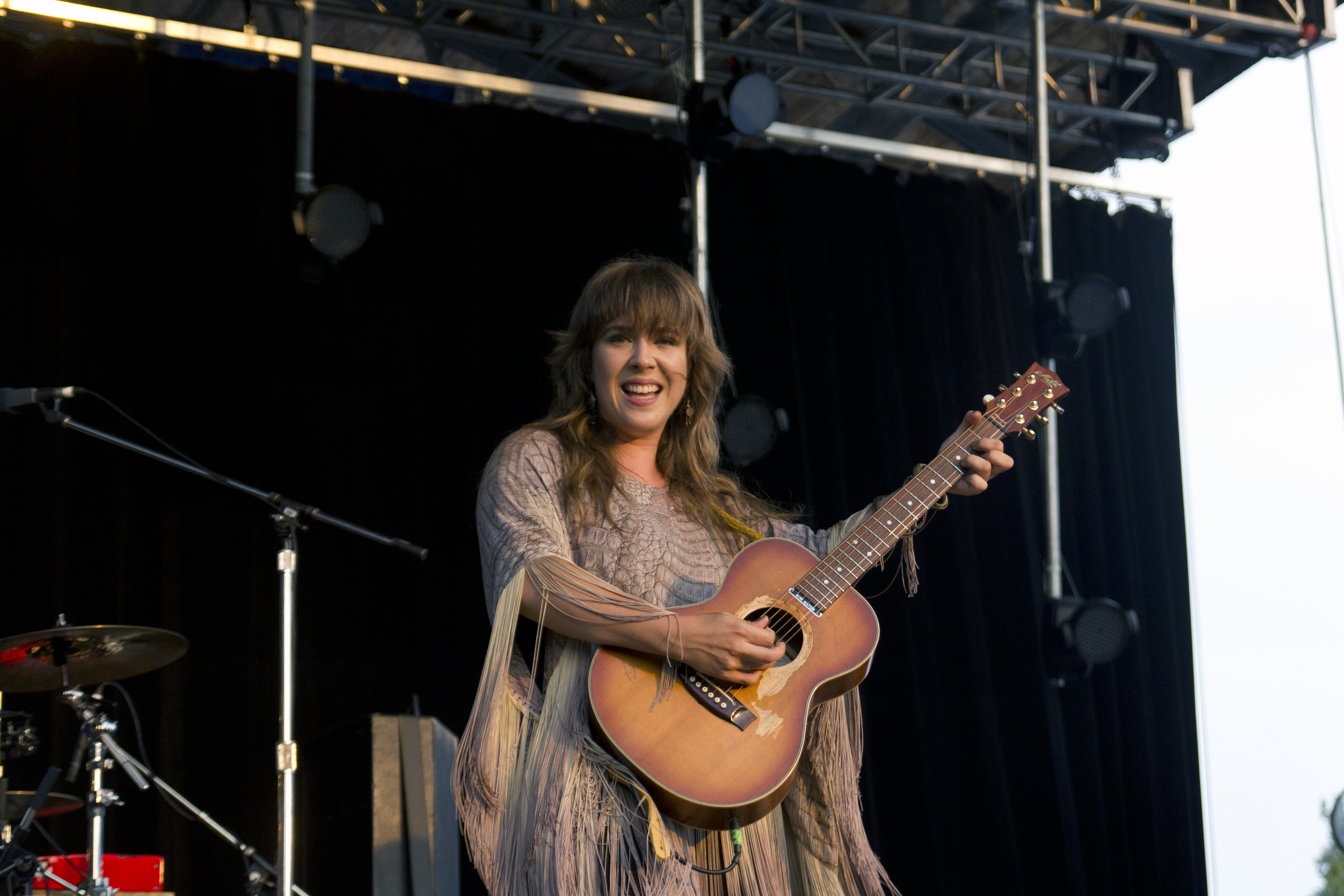 Serena Ryder performing at the 2011 Hillside Festival in Guelph